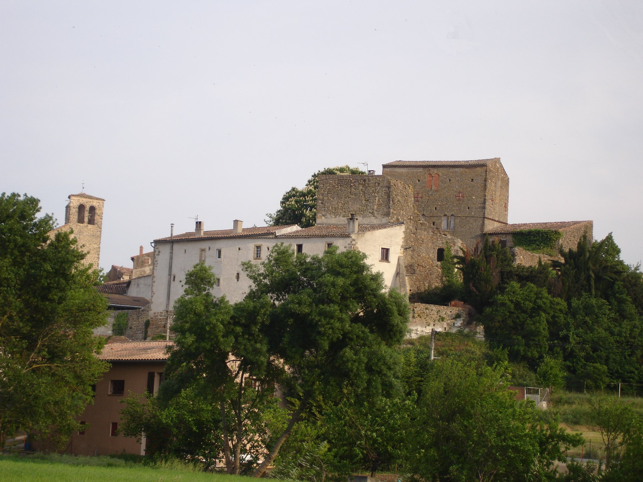 France, Aude (11), Pieusse, Pieusse Castle